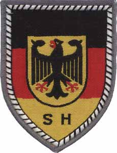 coat of arms Territorialkommando Schleswig-Holstein (TerKd S H) of the Bundeswehr (Armed Forces of the Federal Republic of Germany). → Remarks on naming and categorization scheme